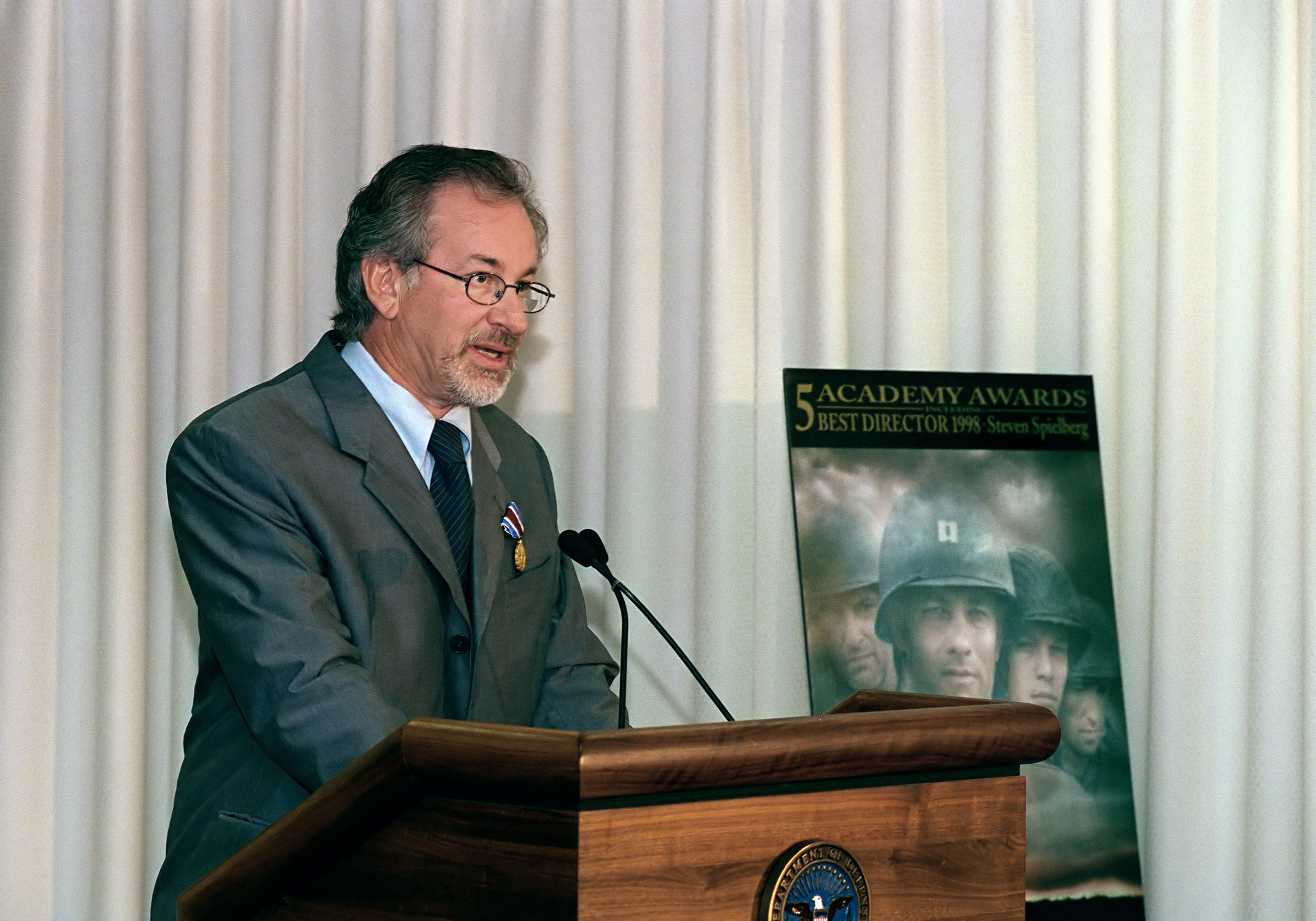 Director Steven Spielberg speaking at the Pentagon on August 11, 1999.